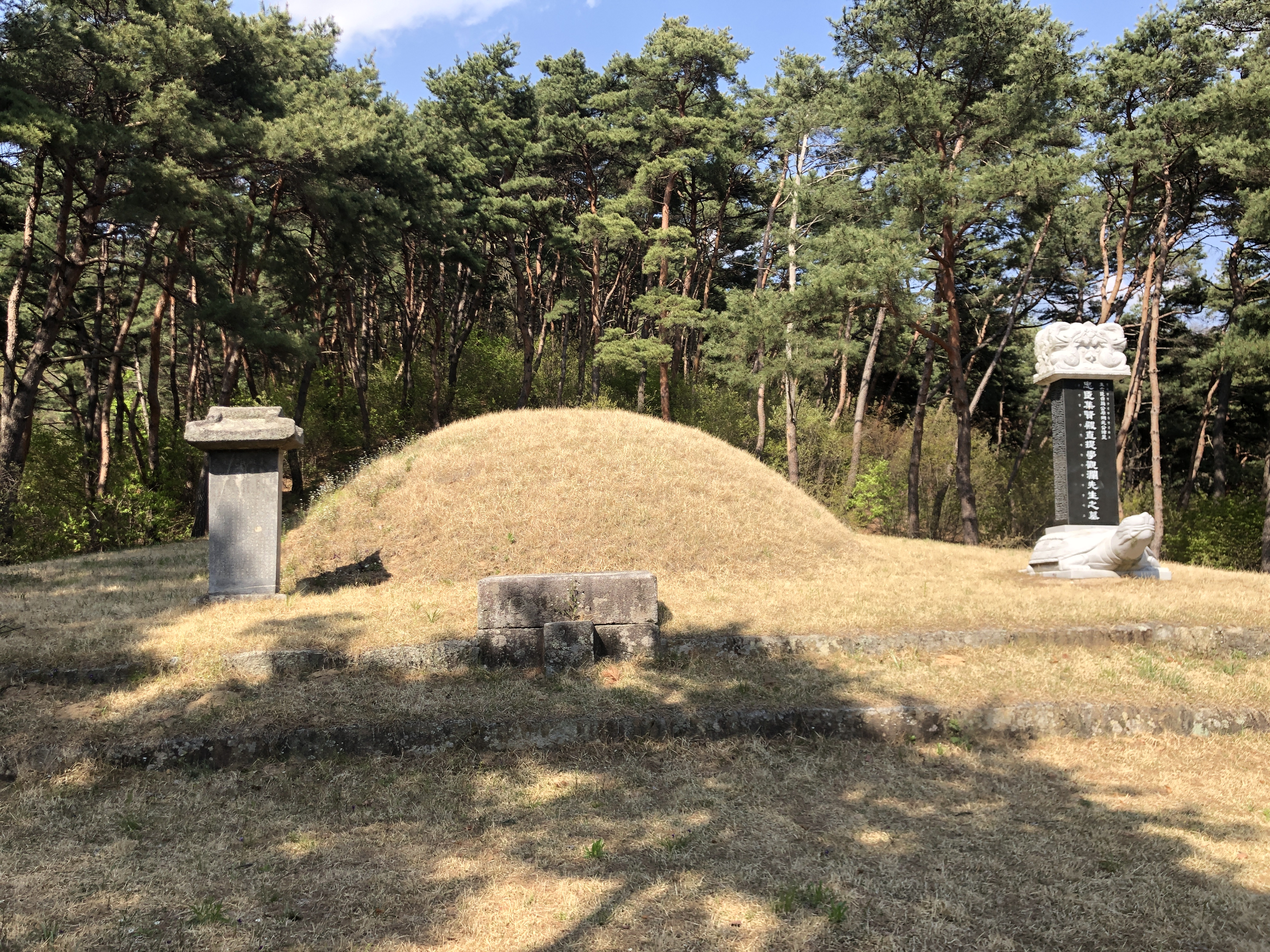 생육신 관란 원호묘